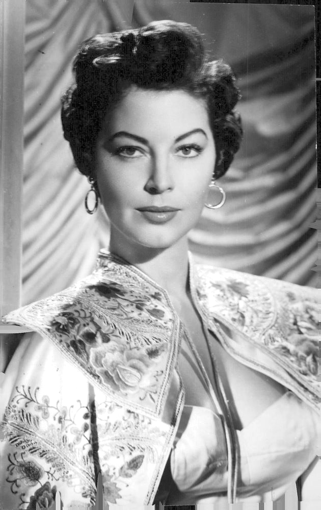 Ava Gardner in Stockholm 1954.